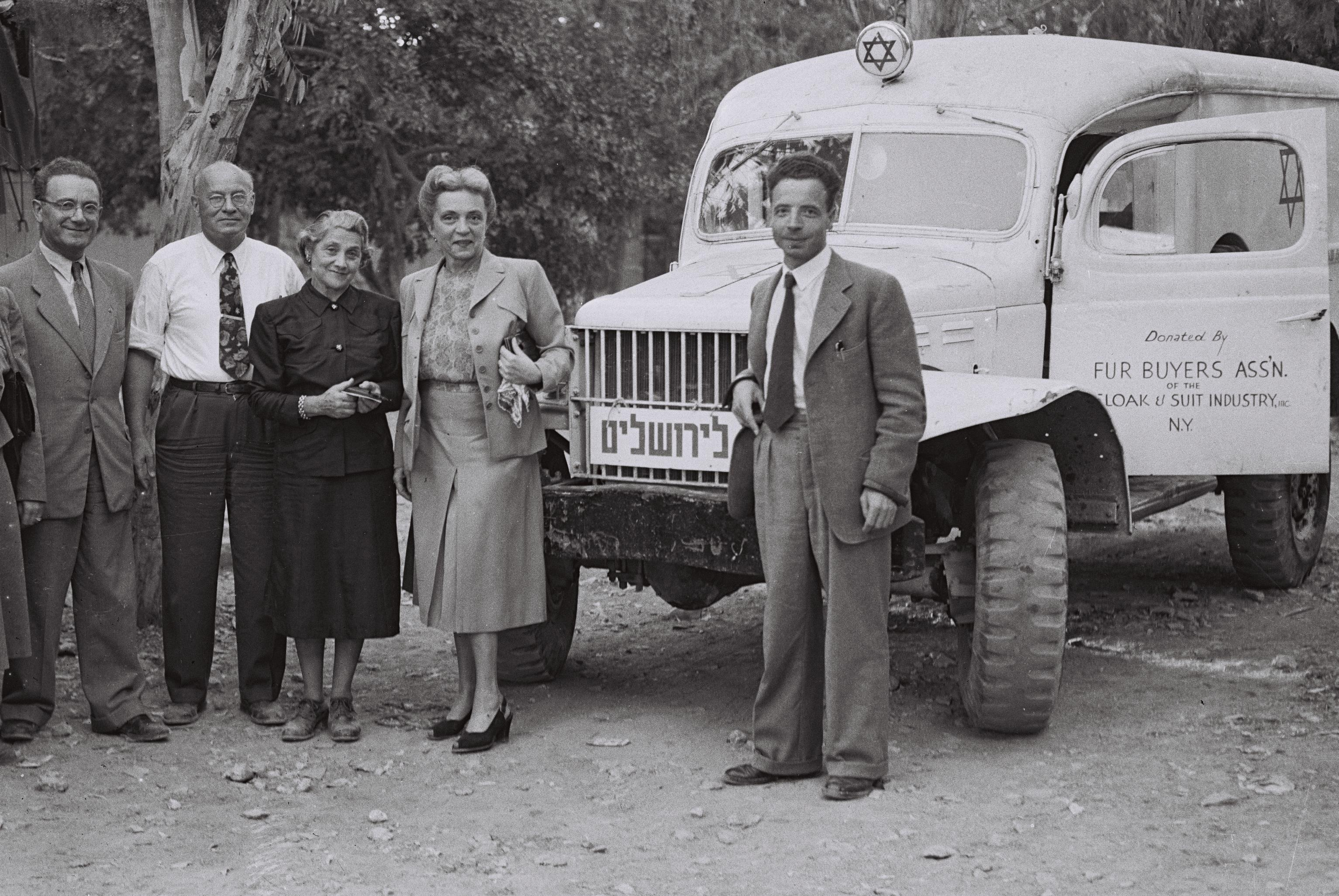 RED SHEILED MISSION FROM THE USA. L - R, , MR. SCHWEIG, CONCRESSMAN E. CELLER, MRS. GRAMOVSKY AND DR. DAVIS, JERUSALEM.